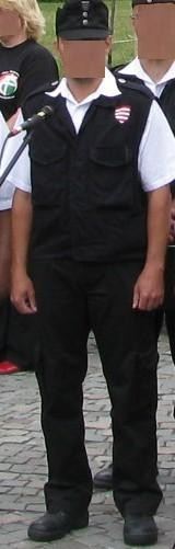 The uniform of a member of Magyar Gárda